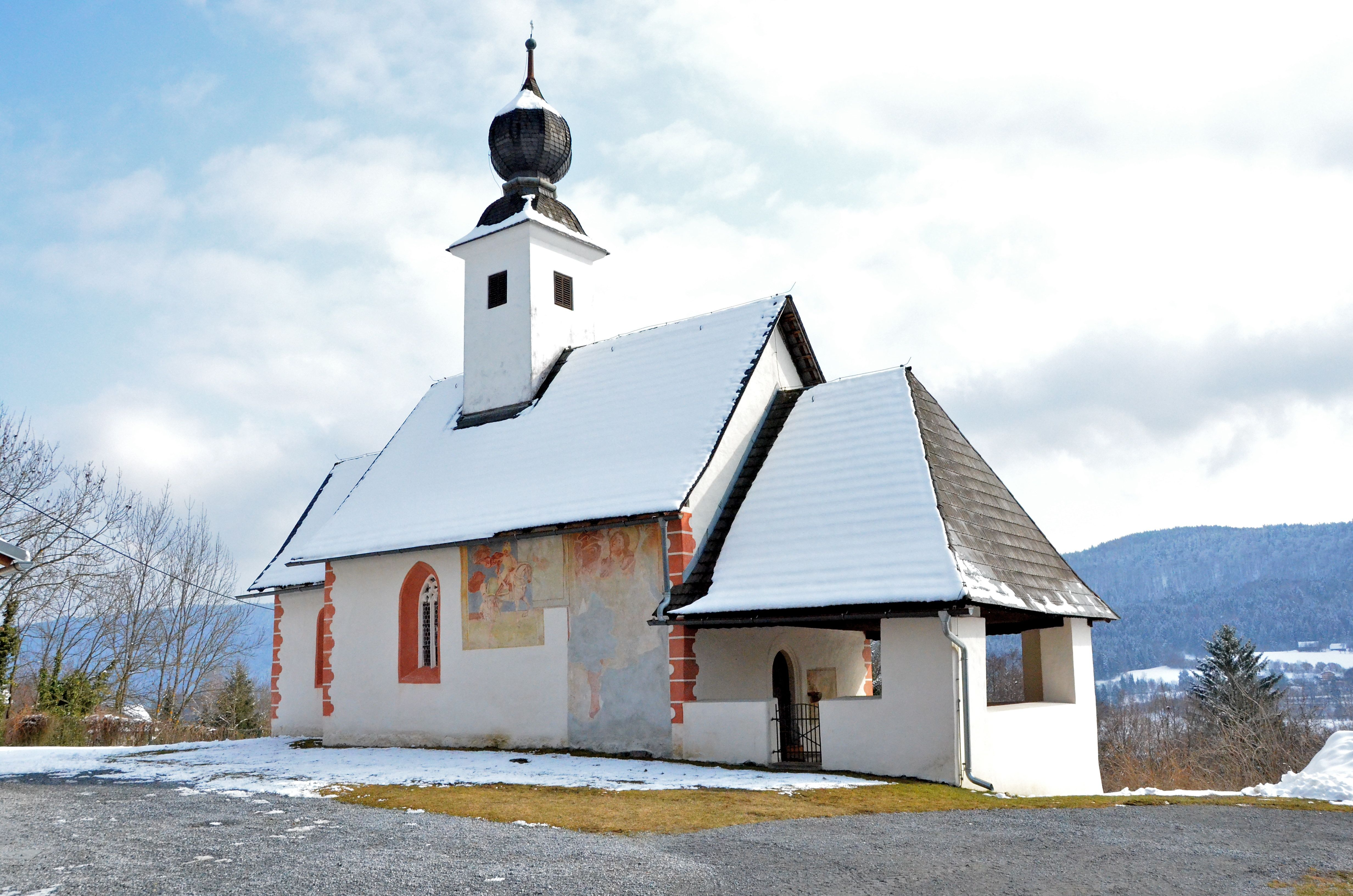 Subsidiary church Saints Ulrich and Martin at Albersdorf, municipality Schiefling am See, district Klagenfurt Land, Carinthia / Austria / EU